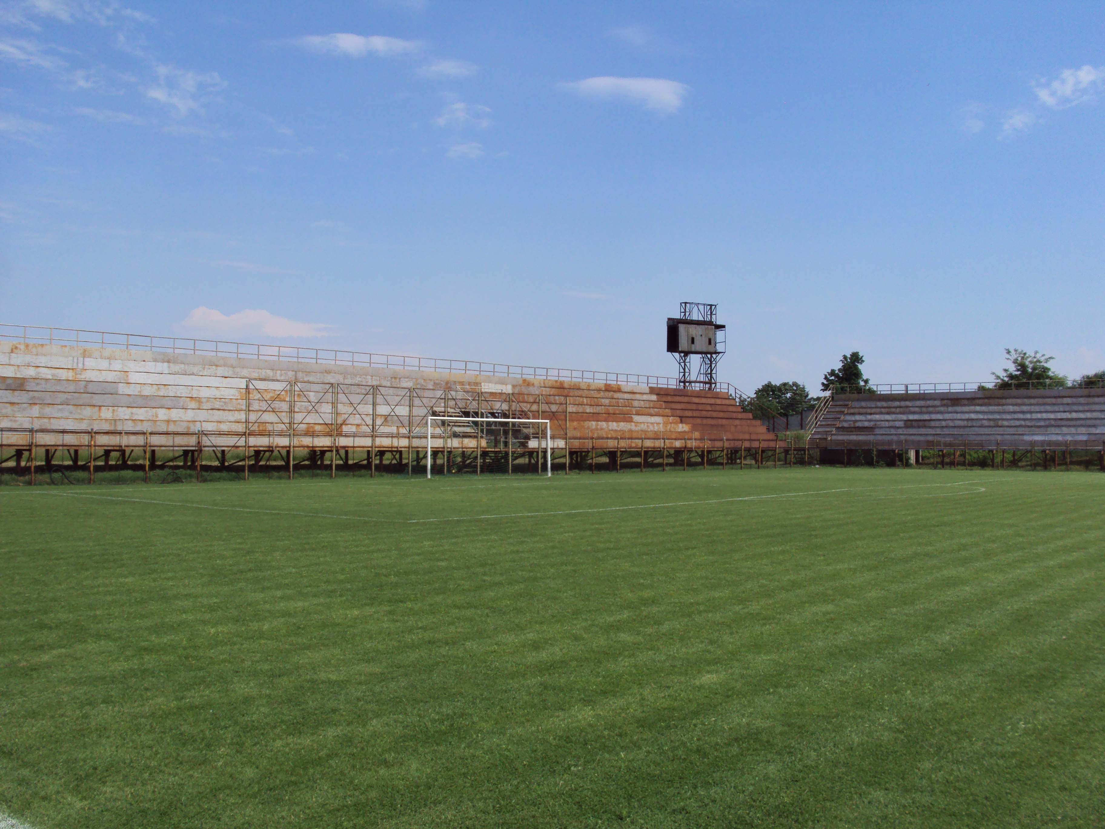 Picture taken by me at the stadium.